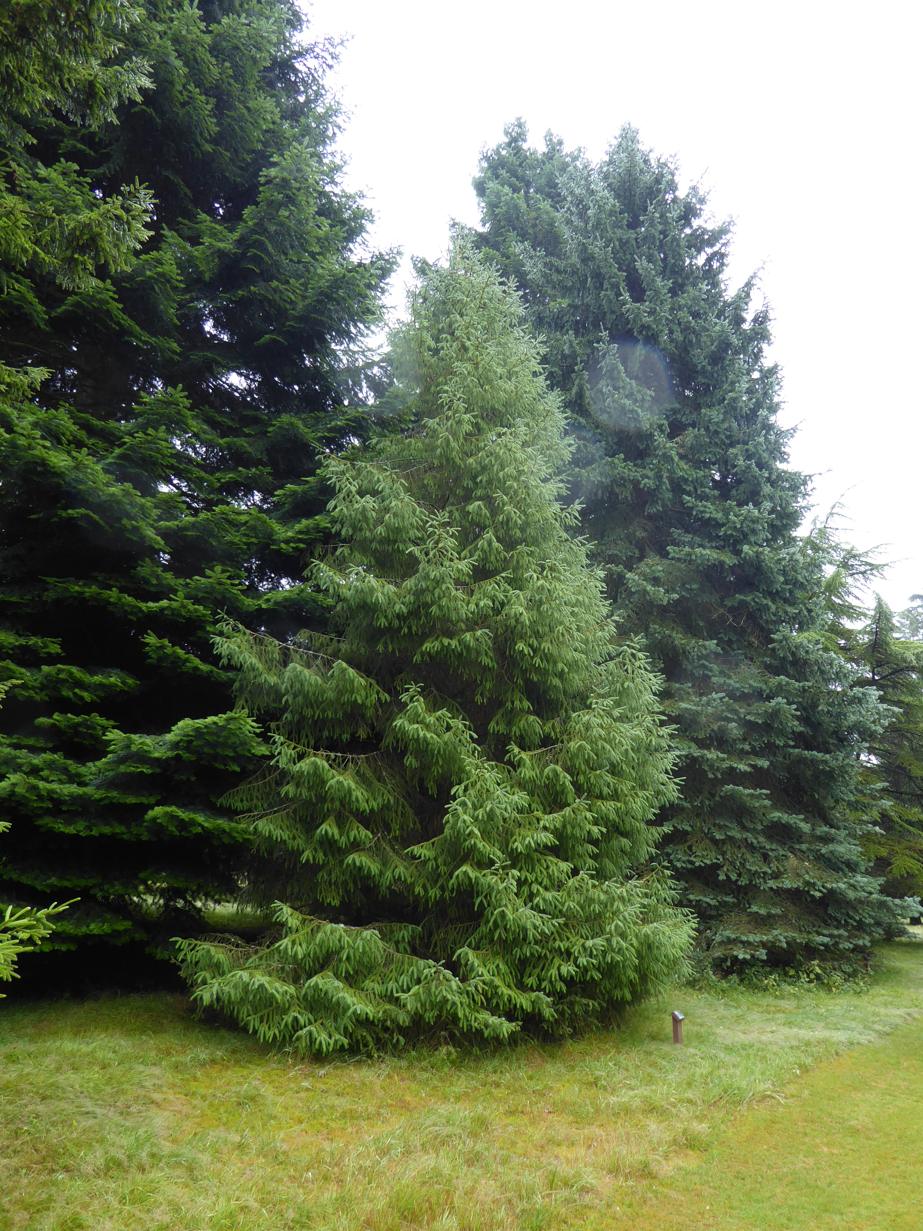 Picea brachytyla in the park of Scone palace